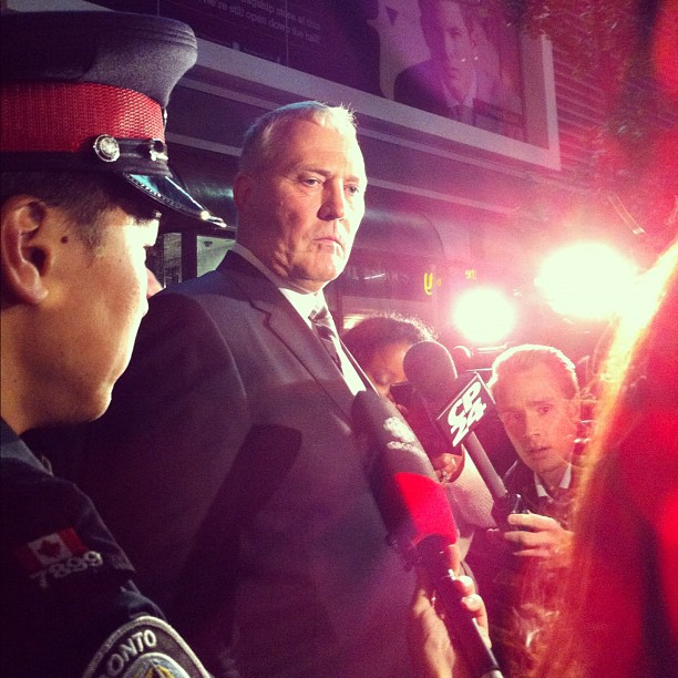 Toronto police chief Bill Blair speaking to reporters outside the Toronto Eaton Centre after a June 2, 2012 shooting in the mall's food court. Toronto, Ontario, Canada.